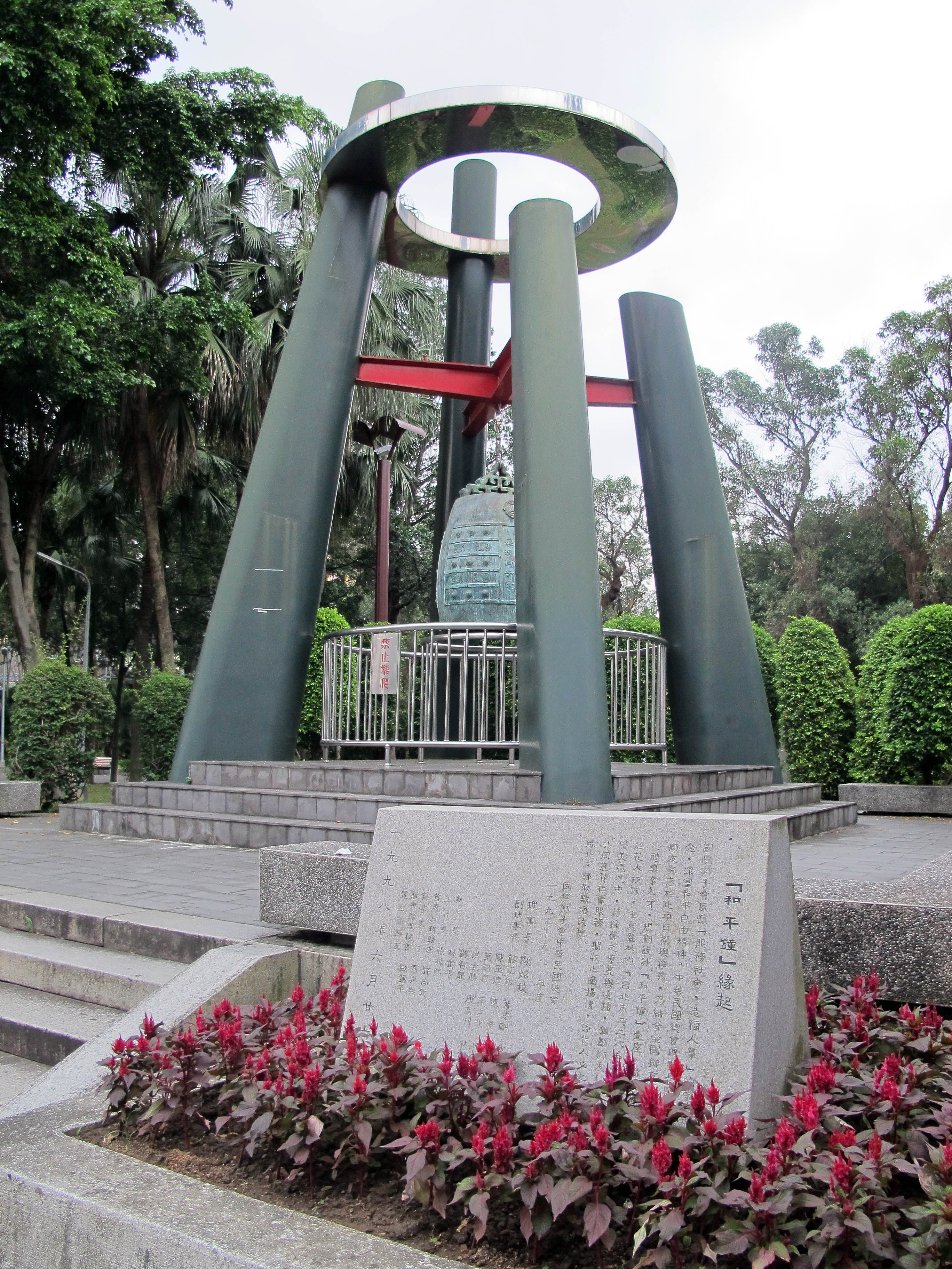 The Peace Bell at 228 Peace Memorial Park, Taipei City.